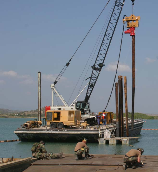 A detachment of Seabees from Naval Mobile Construction Battalion 133, Gulfport, Miss., construct a temporary ferry landing on the Leeward side of the station. EA3 Janelle Duncan, SW3 Ronnie Williams and SW3 Robert Elwyn simultaneously weld, scrape, and drill in order to meet the project deadline.